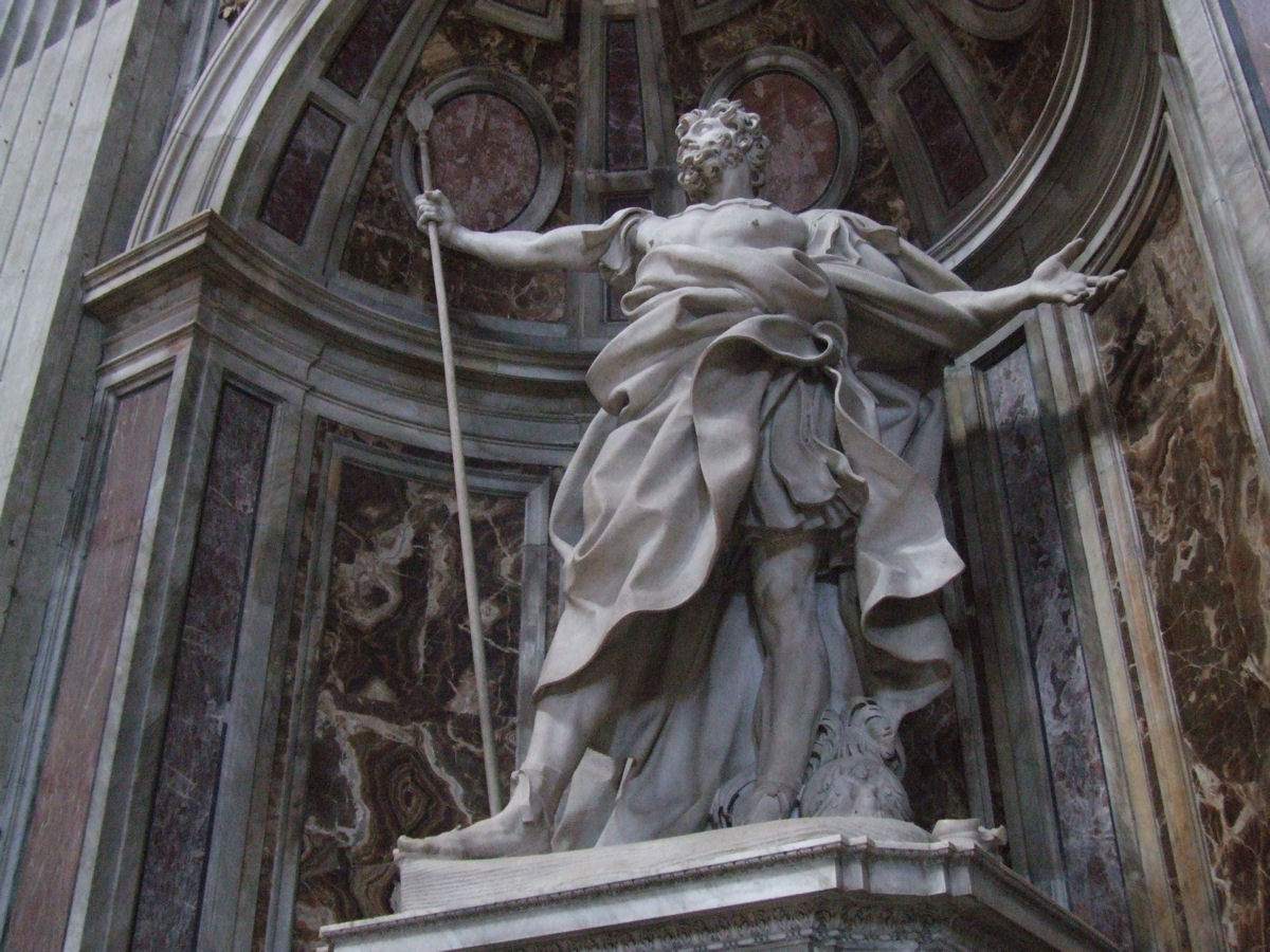 St. Peter's Basilica, Rome, Italy